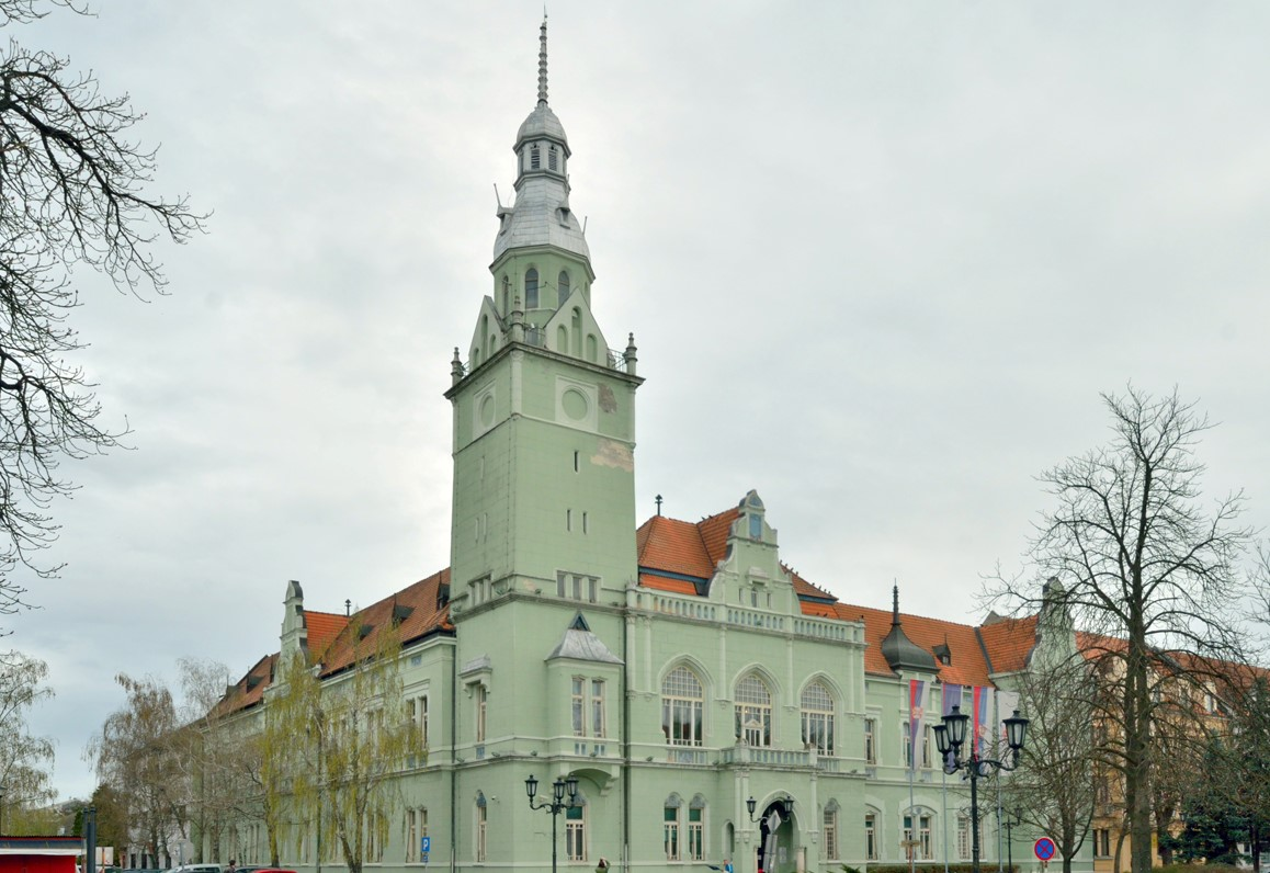 Assembly of the Municipality of Apatin